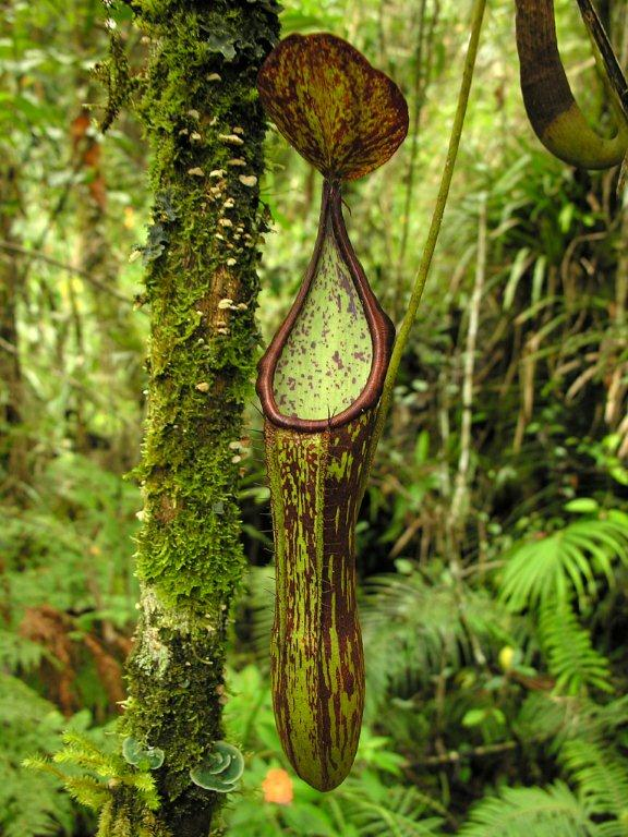 Nepenthes copelandii, lower pitcher. On Mount Apo, Davao Region, Mindanao, the southern Philippines.